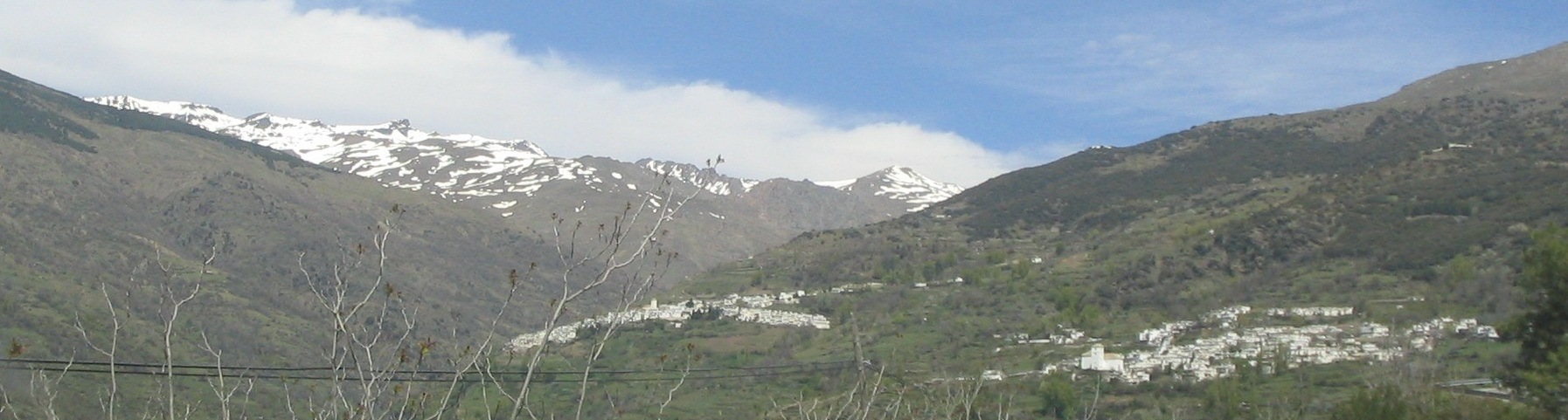 Towns of Las Alpujarras (Granada, Spain)